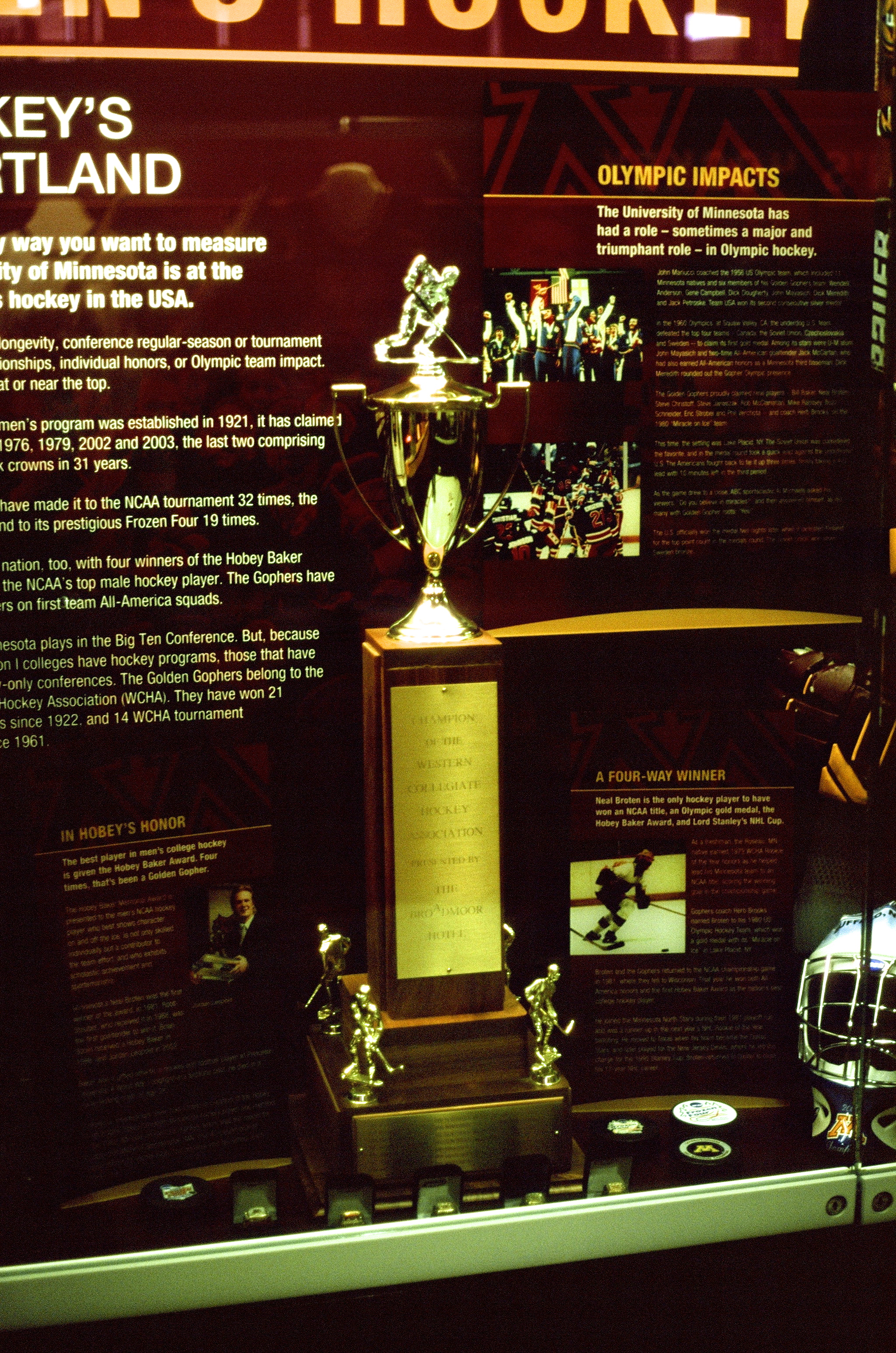 A previous version of the Broadmoor trophy in TCF Bank Stadium at the University of Minnesota.